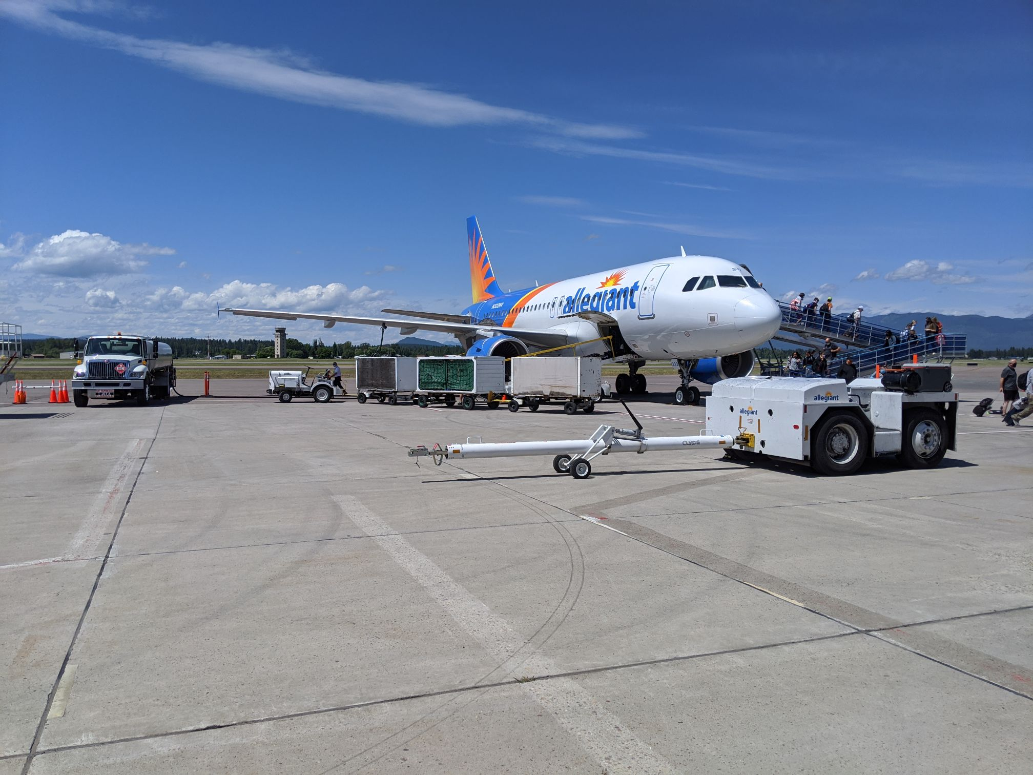 An Allegiant Air Airbus A319 plane parked at Kalispell Airport in Montana, USA.